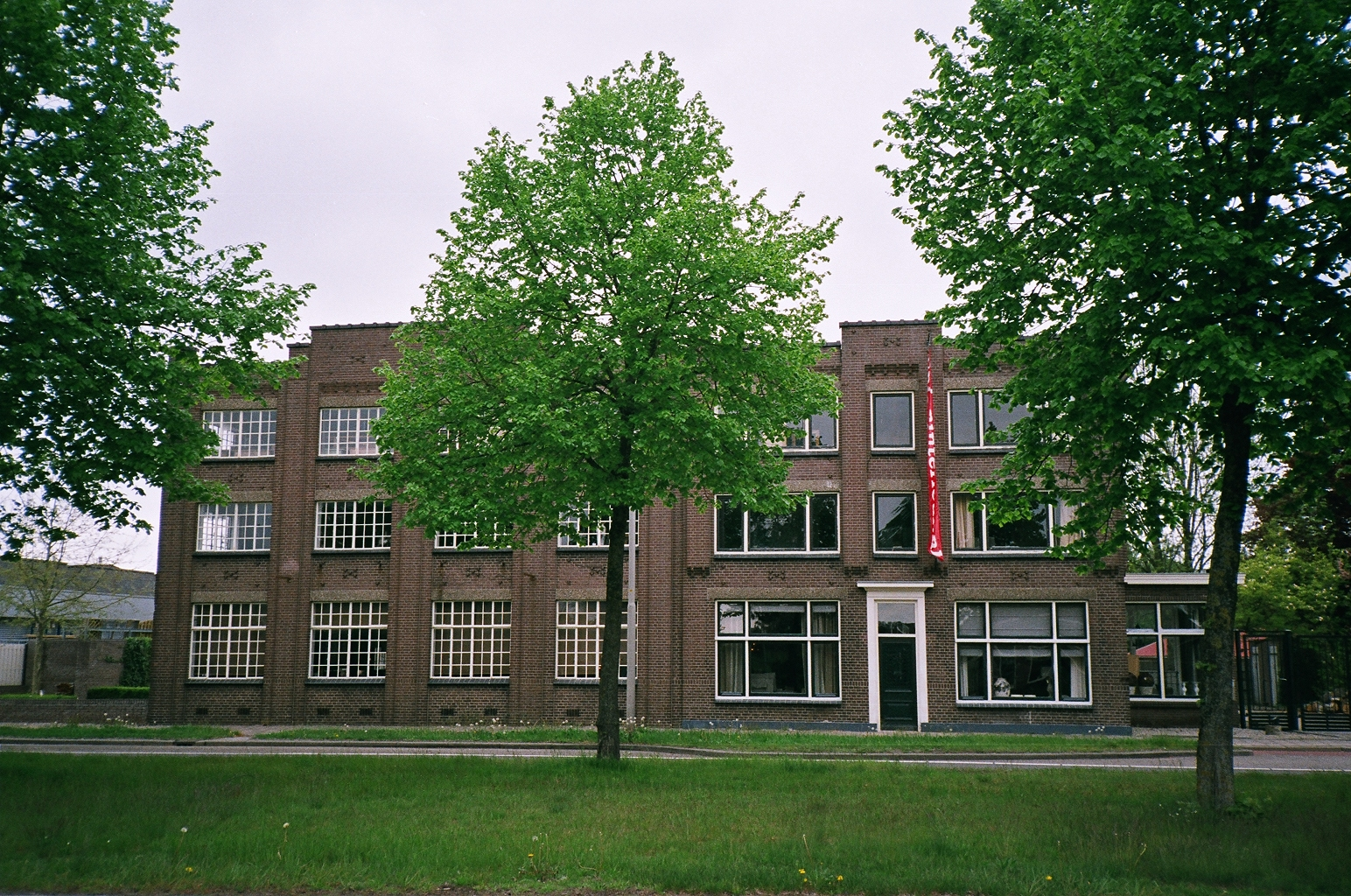 Former Union factory building, Den Hulst, Overijssel, May 2010. Photo: Ni'jluuseger